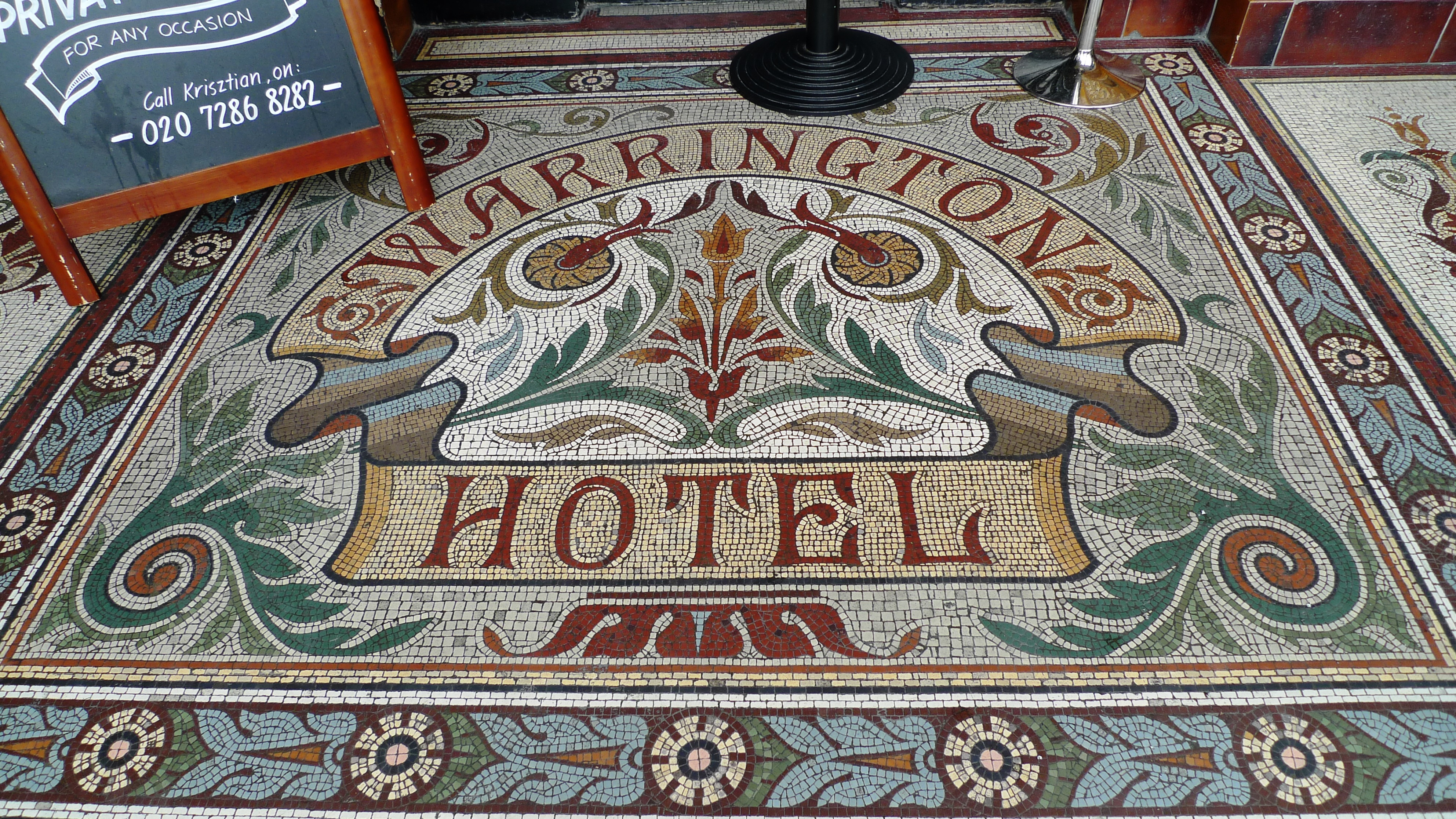 The tiling in the doorway of this grand old pub building. (View of entrance, and of whole building.) Address: 93 Warrington Crescent. Links: London Pubology